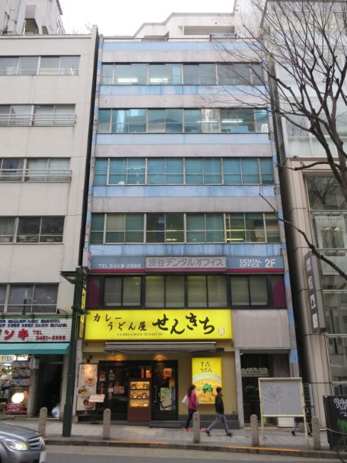 本社が入るビル：東京都渋谷区神泉